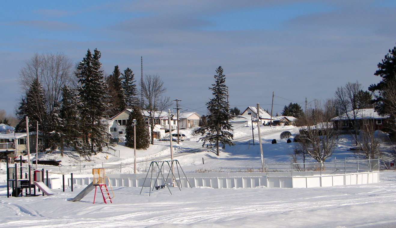 Whitefish (Greater Sudbury municipality), Ontario, Canada. View of playground at park (foreground) and Park Street from Municipal Road 55.